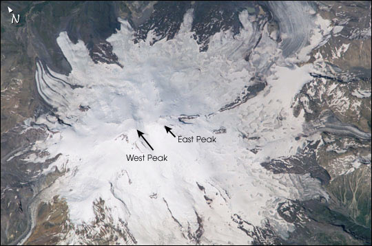 Elbrus Public Domain Quelle: Nasa Earth Observatory 20:23, 1. Jul 2004 Tigerente 540 x 358 (52124 Byte) (Elbrus)